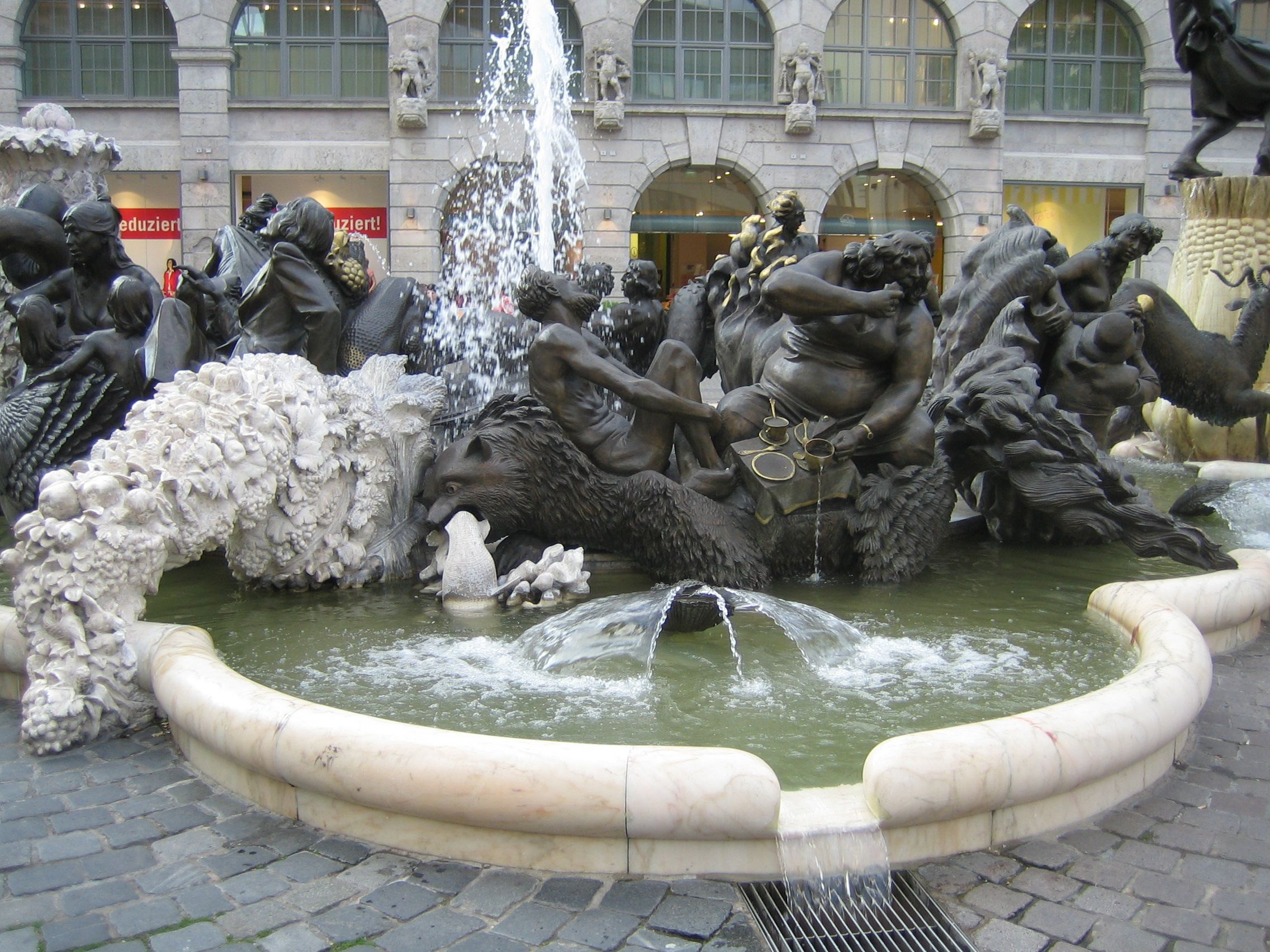 Marriage Roundabout in Nuremberg